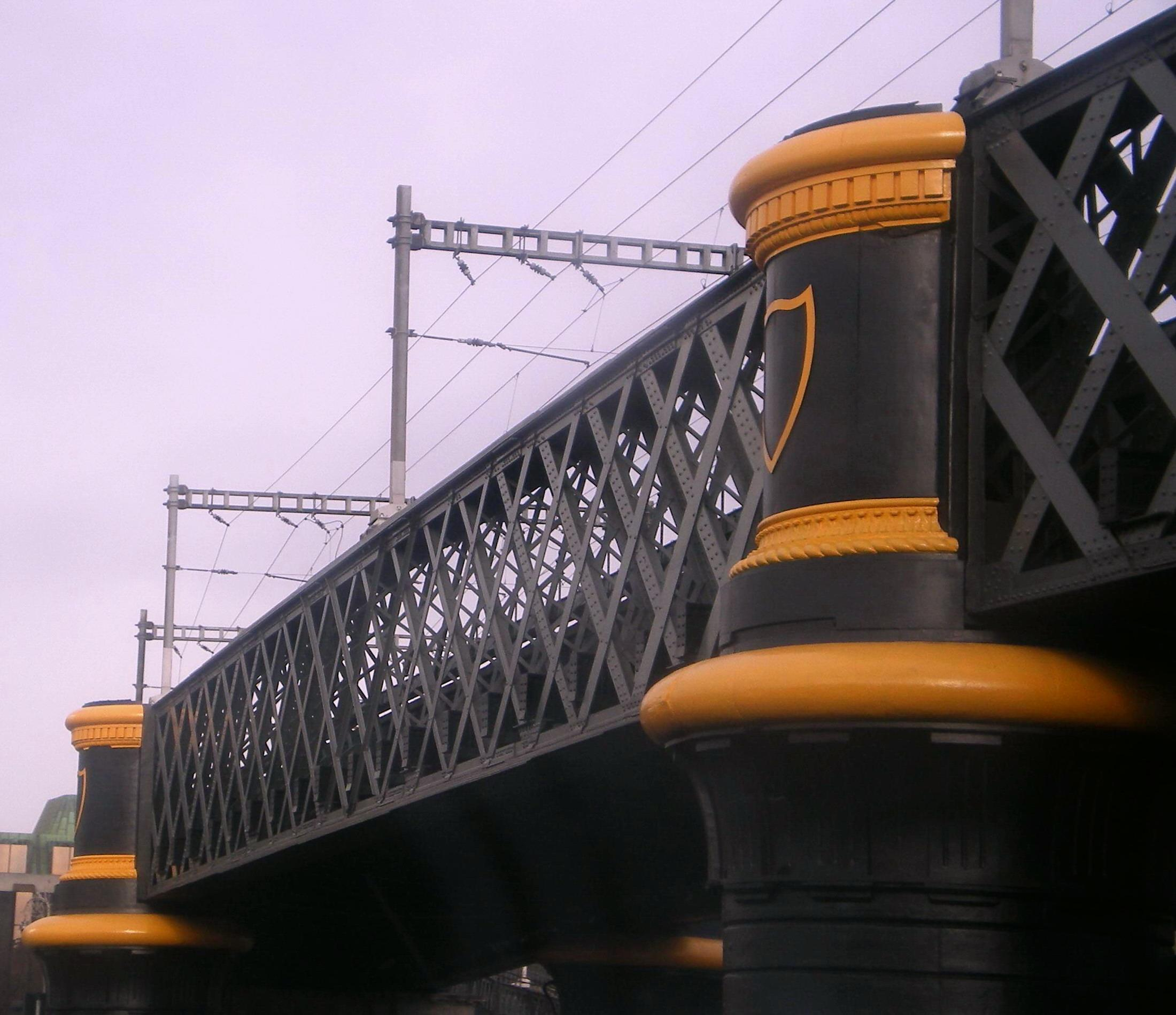 The railway bridge next to the Butt Bridge in Dublin